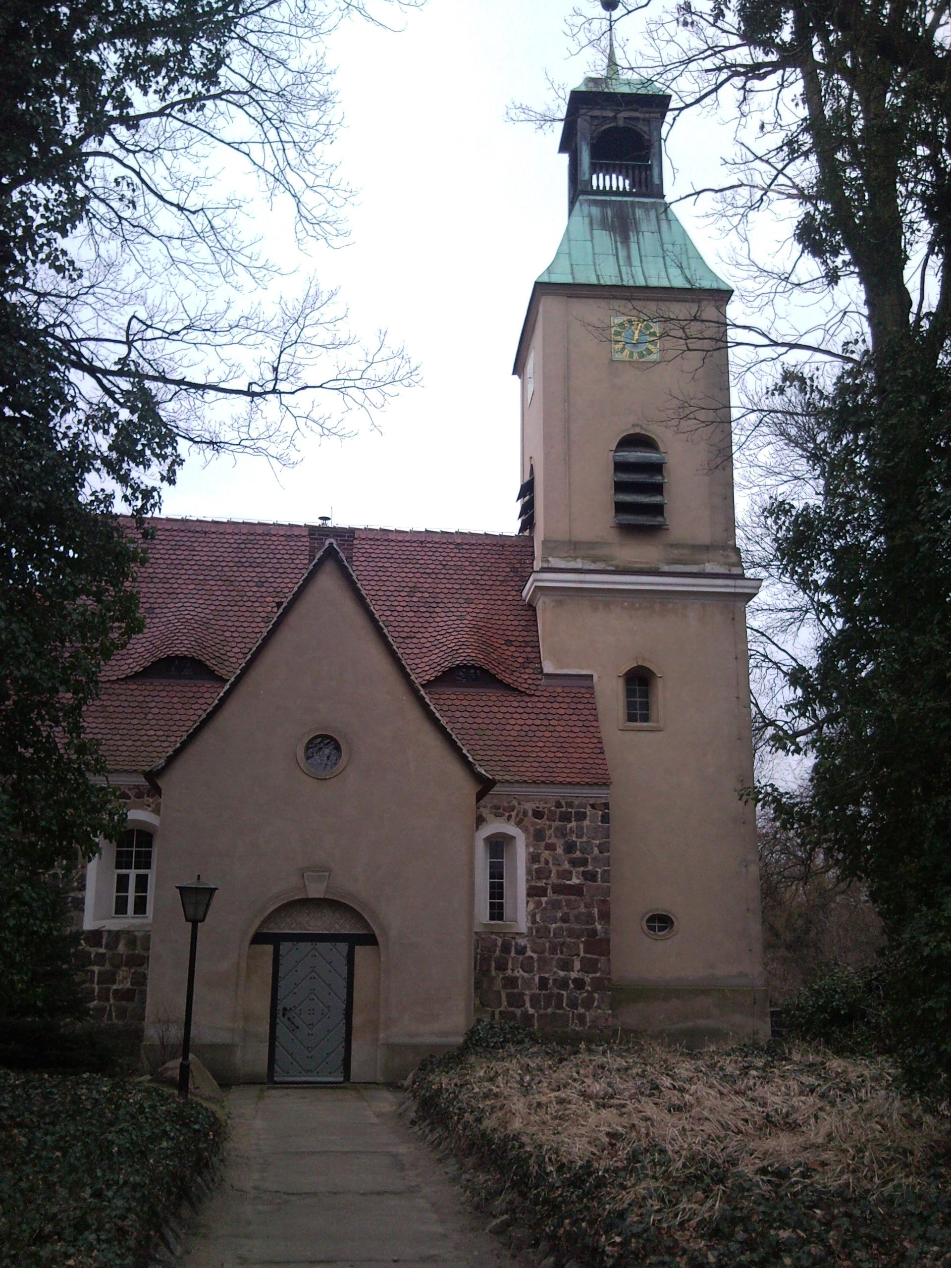 Village church in Teltow, district Ruhlsdorf; build at 1250